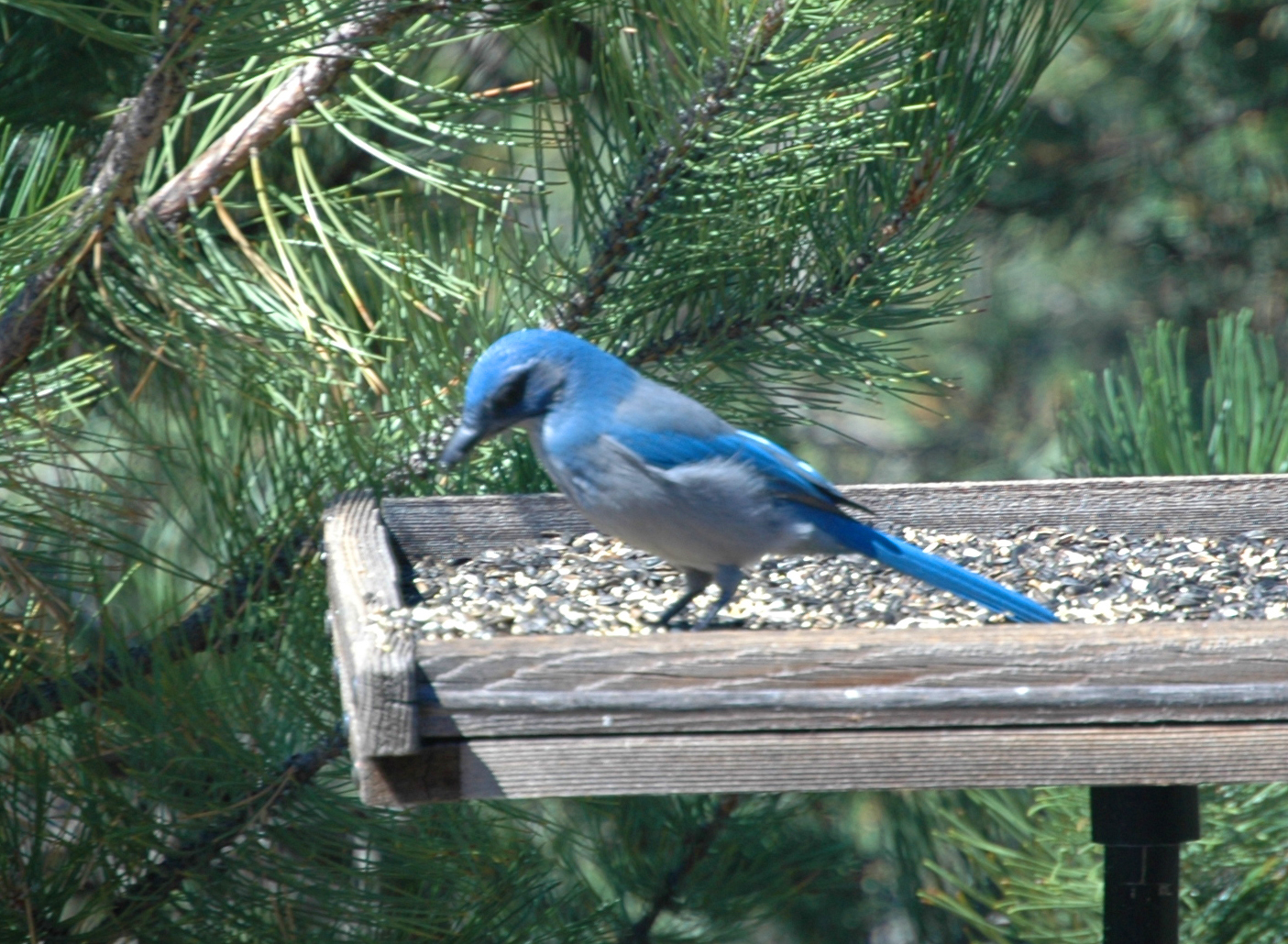 Aphelocoma woodhouseii, White Rock, Santa Fe, New Mexico, USA.